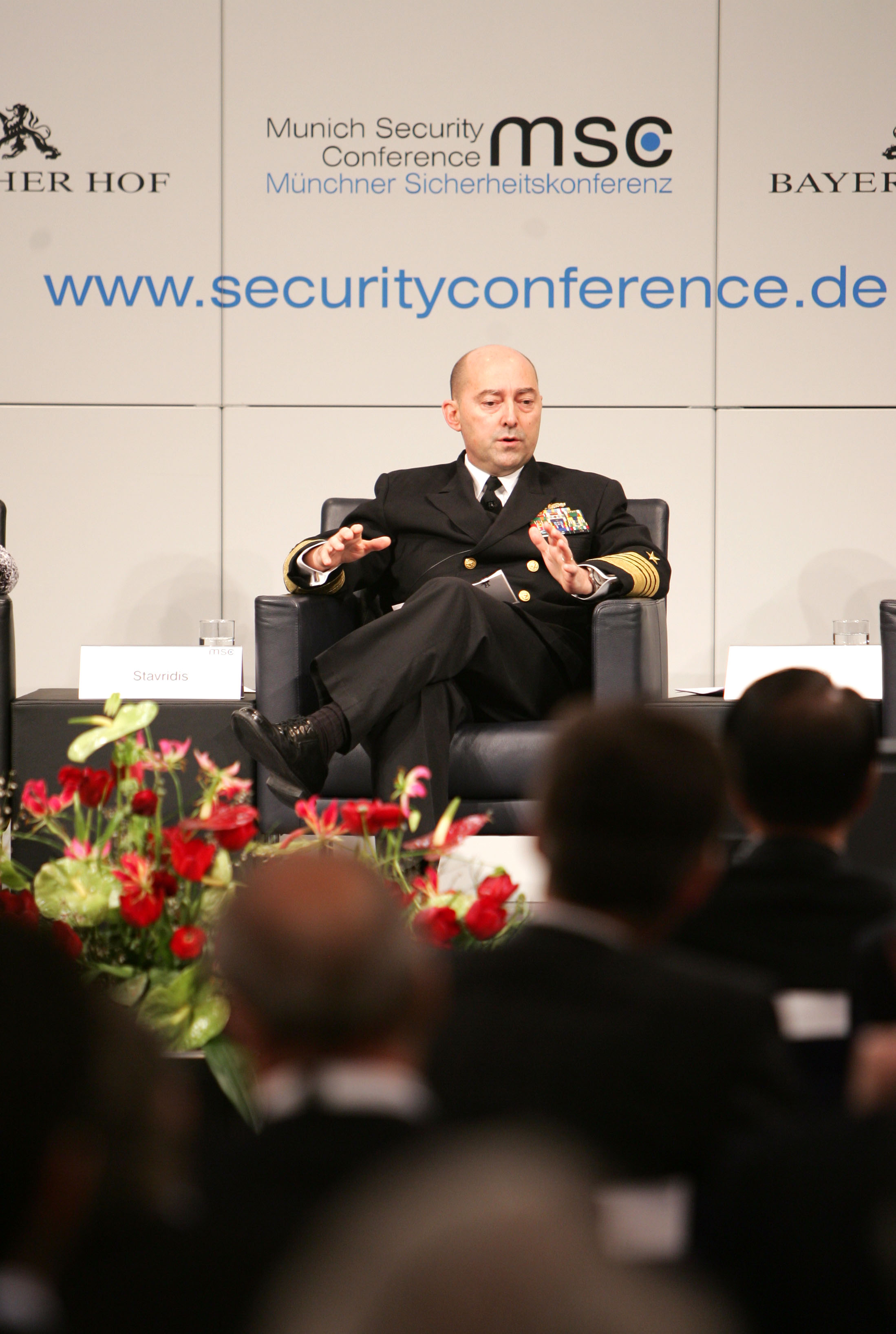 47th Munich Security Conference 2011: James G. Stavridis, Admiral, NATO.